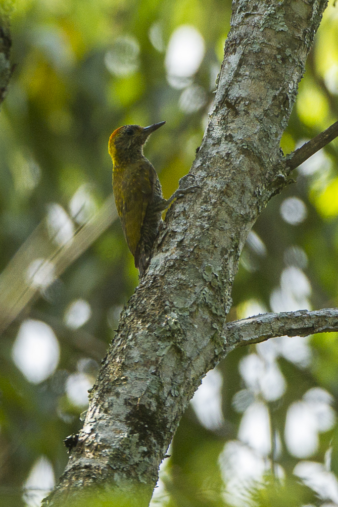 Yellow-eared Woodpecker - REGUA - Brazil_S4E2780